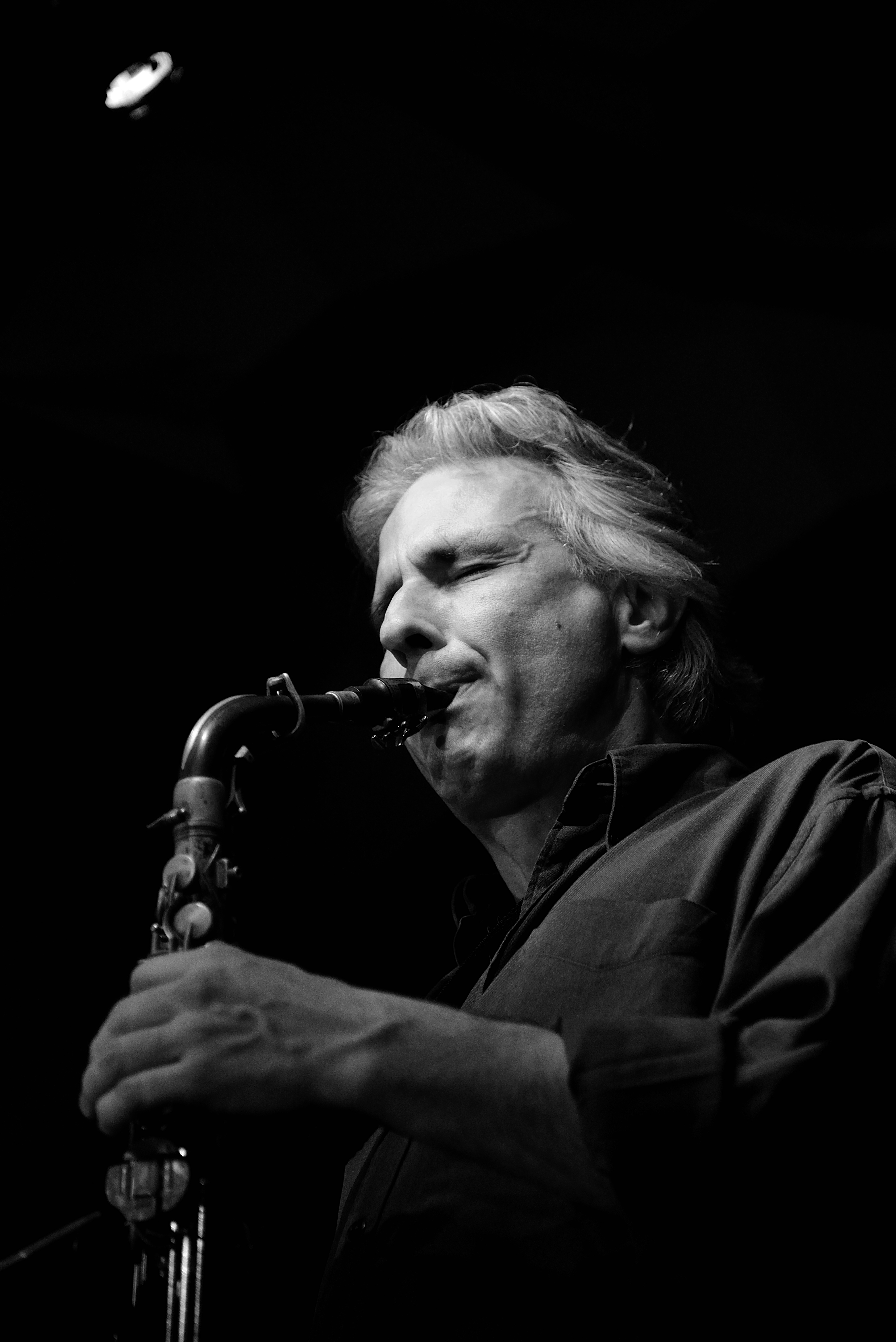 Perico Sambeat